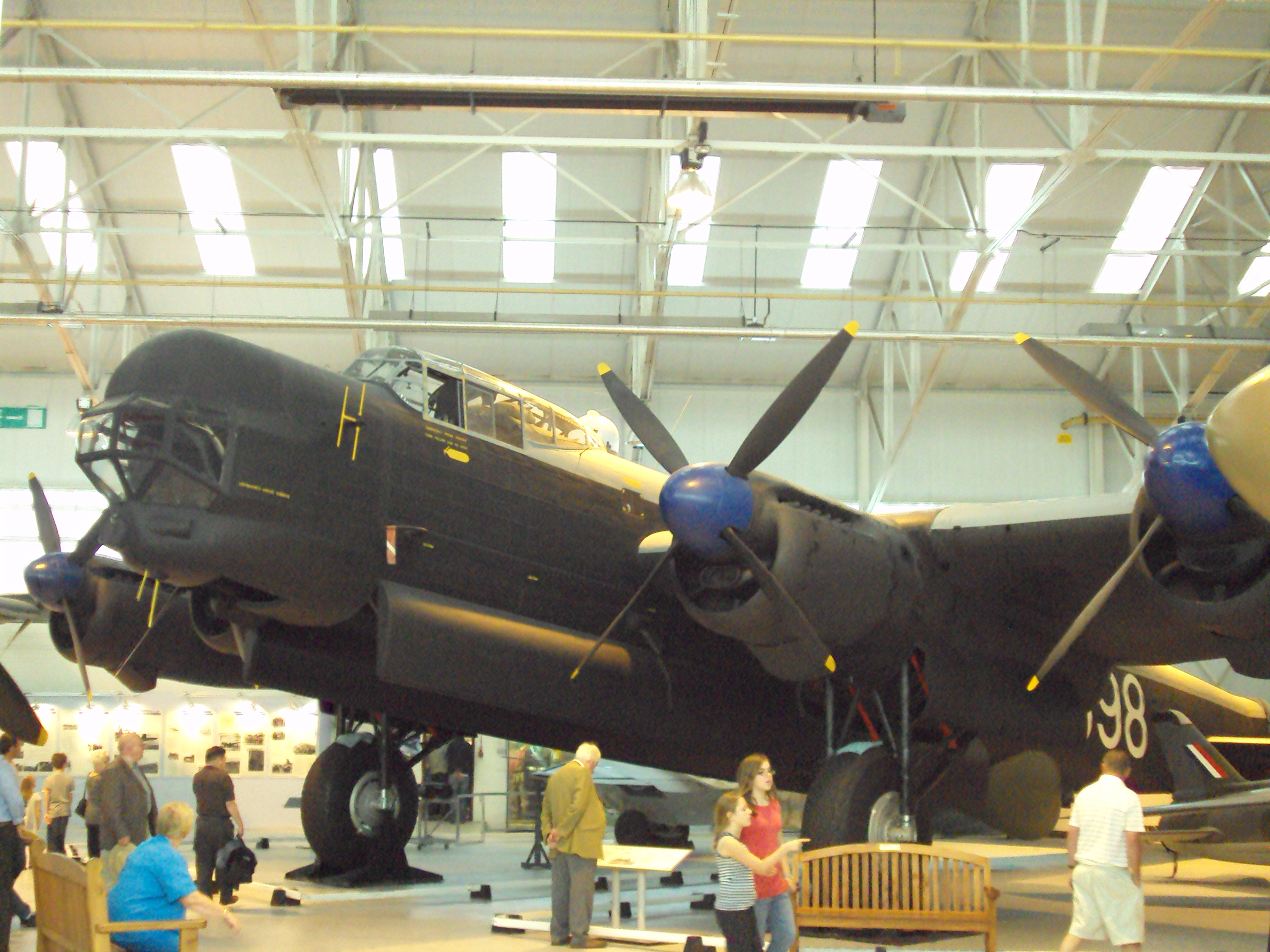 Photo of Avro Lincoln aircraft taken at the RAF Museum Cosford, Shropshire, England.